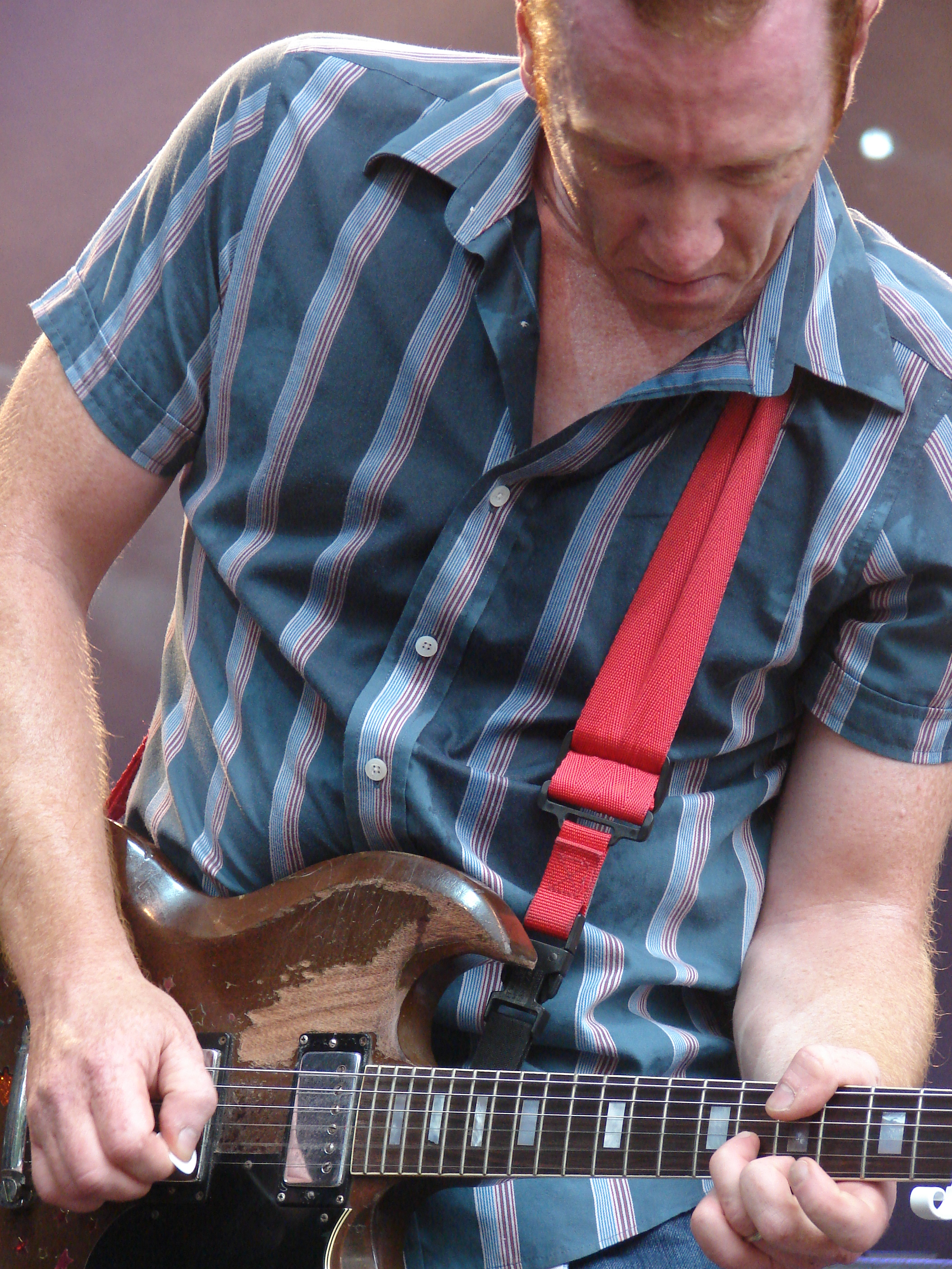 a great nineties grunge band...